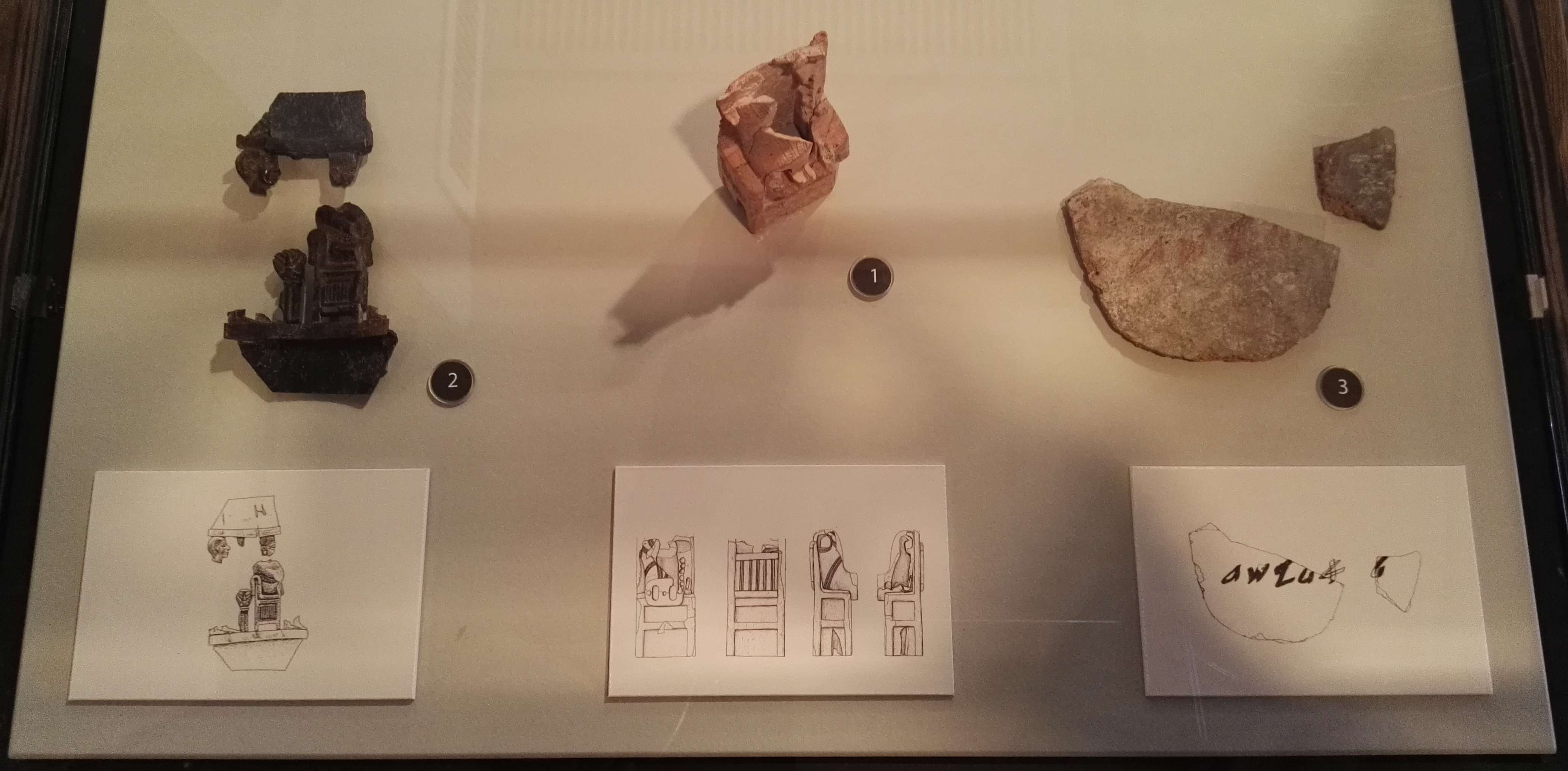 Tel Rehov exhibition in Eretz Israel Museum, Tel Aviv, Israel.